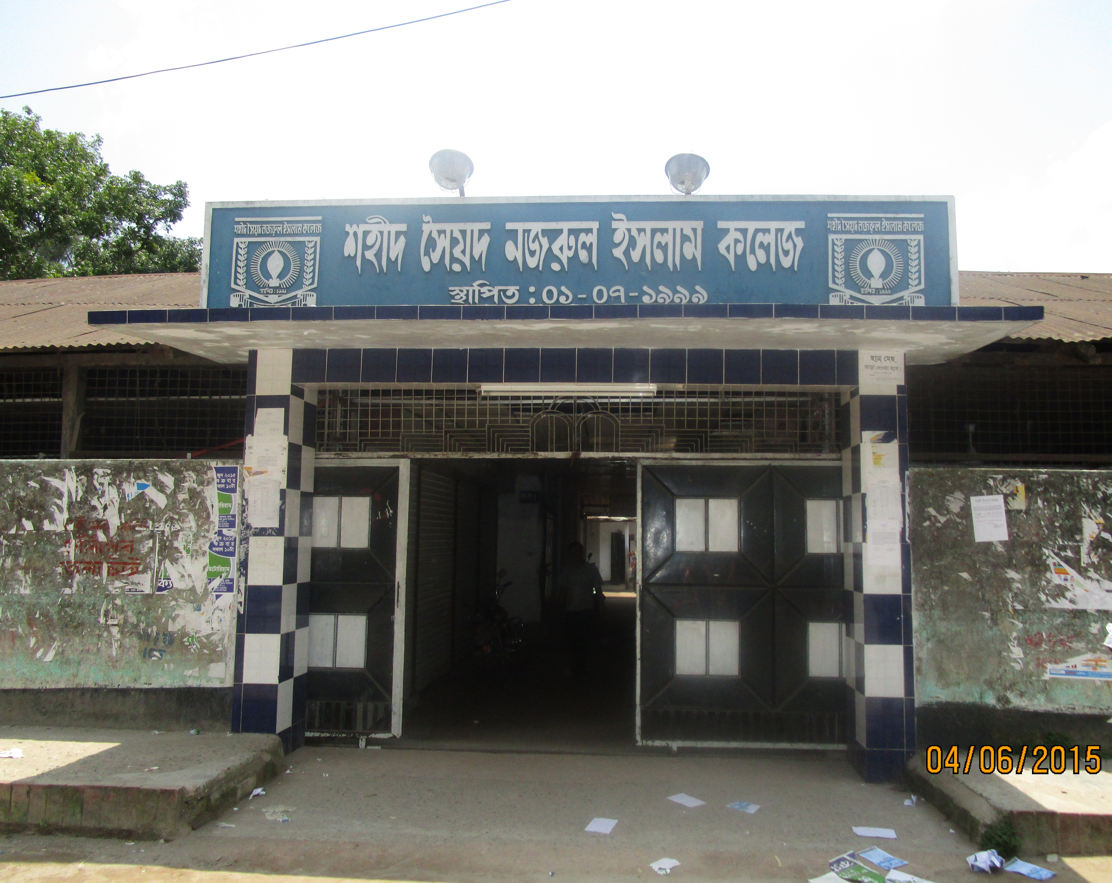 The main gate of Shahid Syed Nazrul Islam College at Mymensingh